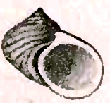 Fossarina patula (A. Adams & Angas, 1864); family Trochidae